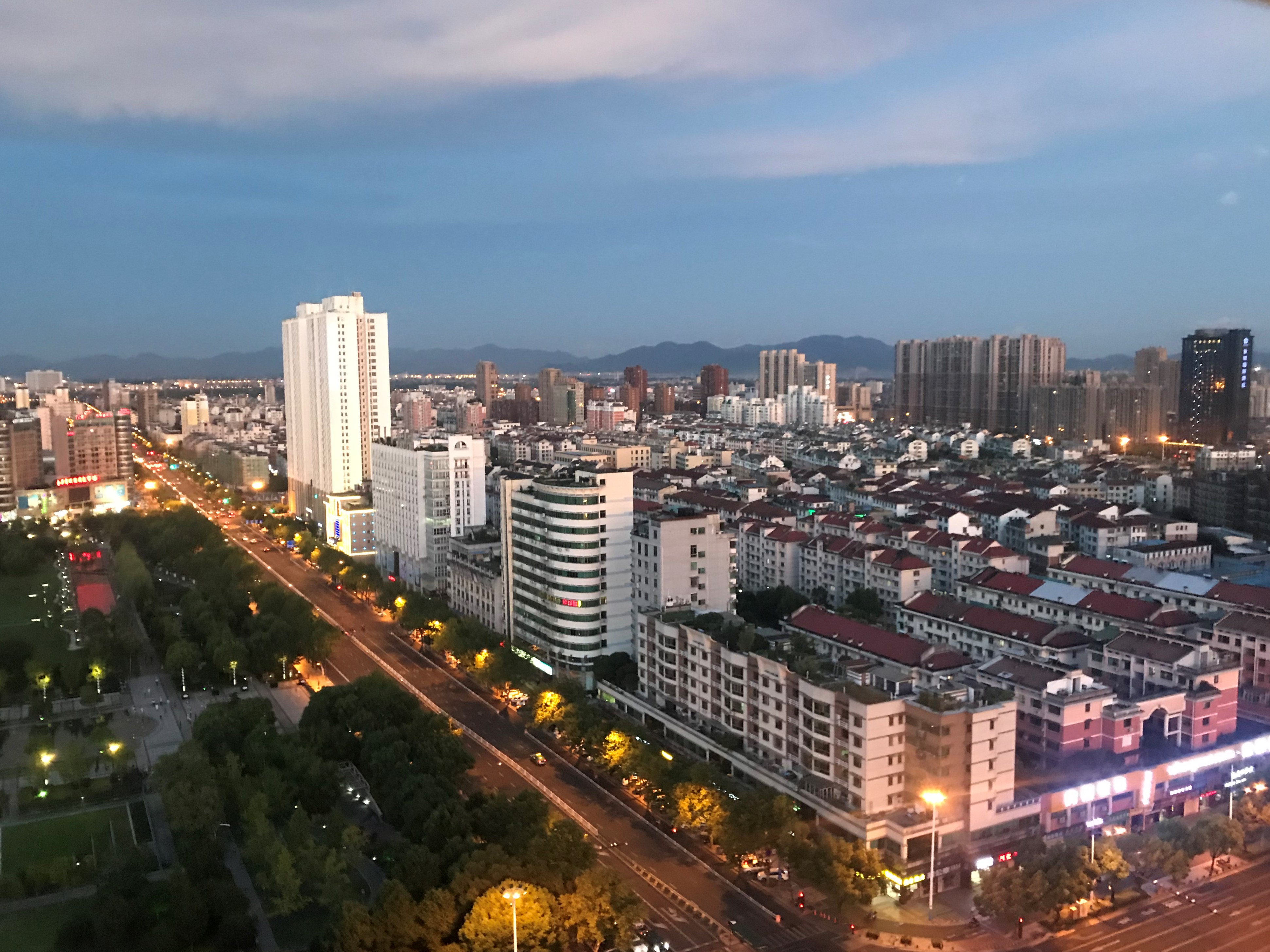 201908 Danxi Road, Jindu Garden and Sihouhuang at Dusk